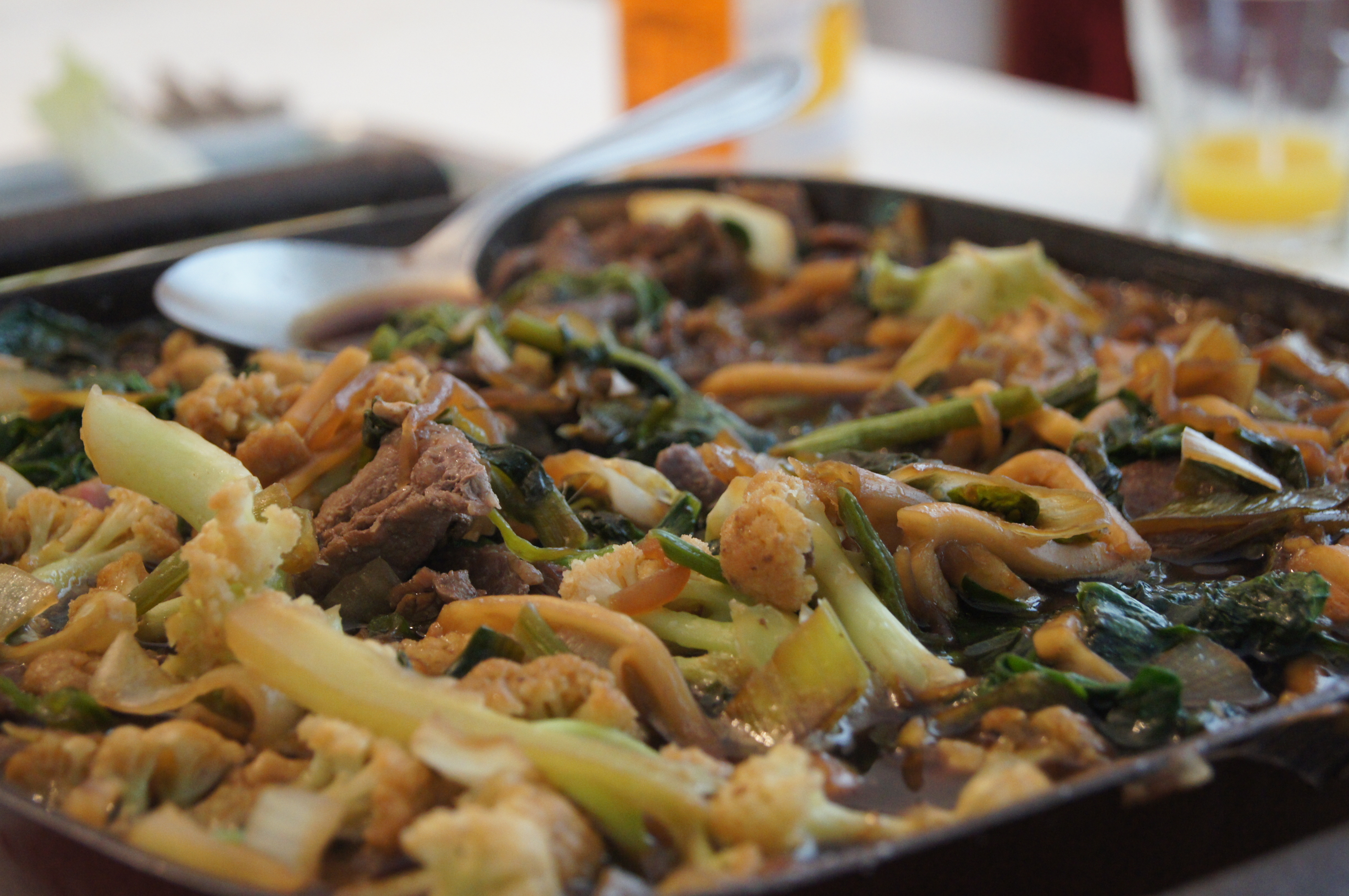 Sukiyaki